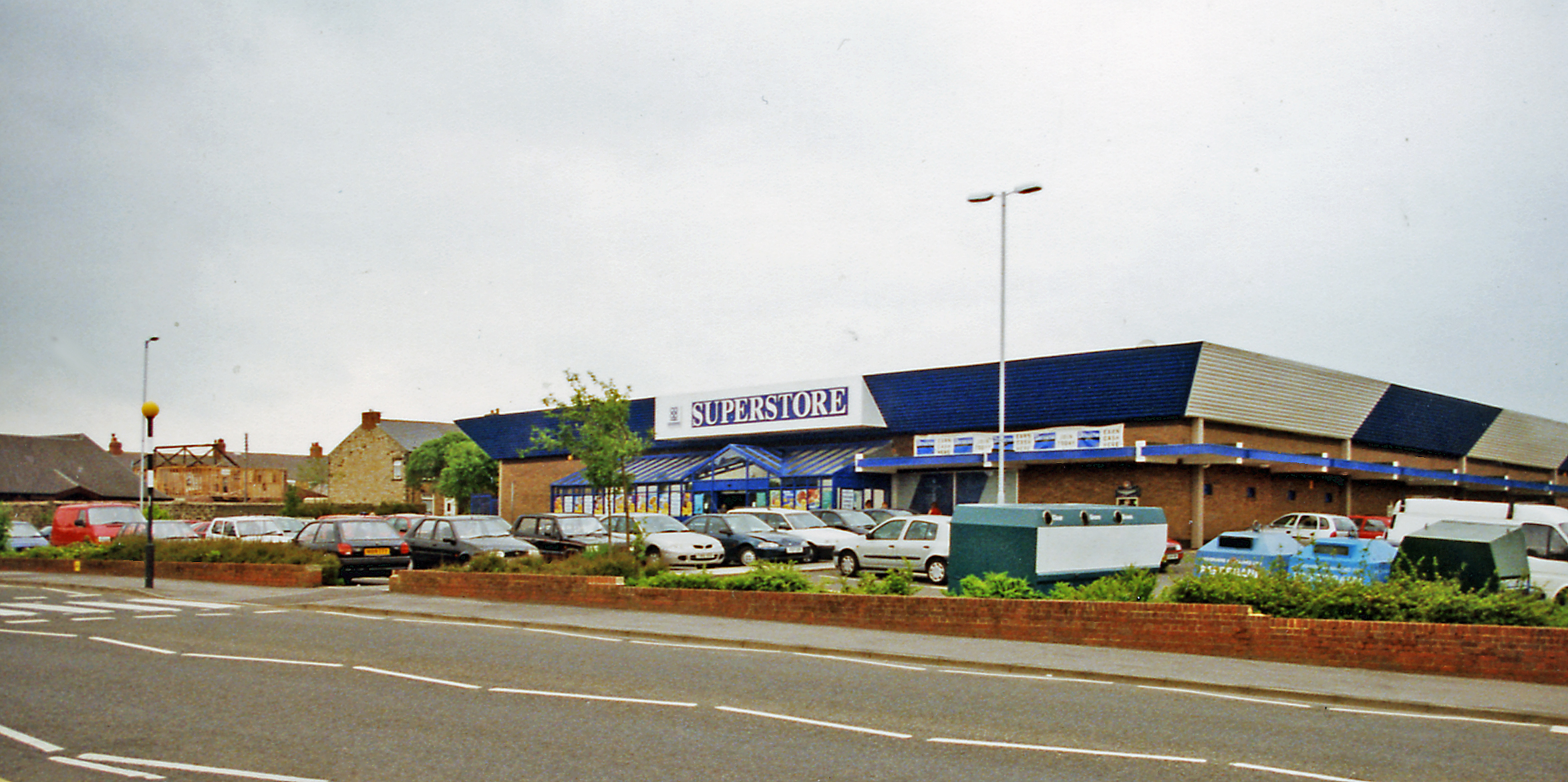 Superstore on site of Annfield Plain station. View SW, probably on the B6168 road. The station had been where the superstore is, or just behind it. It had been on the line to Consett from Newcastle via Birtley and Ouston Junction and closed to passengers on 23/5/55 (goods 10/8/64). The line through Annfield Plain had remained active for the iron ore traffic from Tyne Dock via South Pelaw Junction, until Consett Ironworks closed in 9/80.